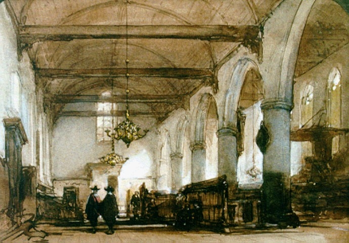 Interior of the Bakenesserkerk in Haarlem by Johannes Bosboom (1817 - 1891), aquarel on paper